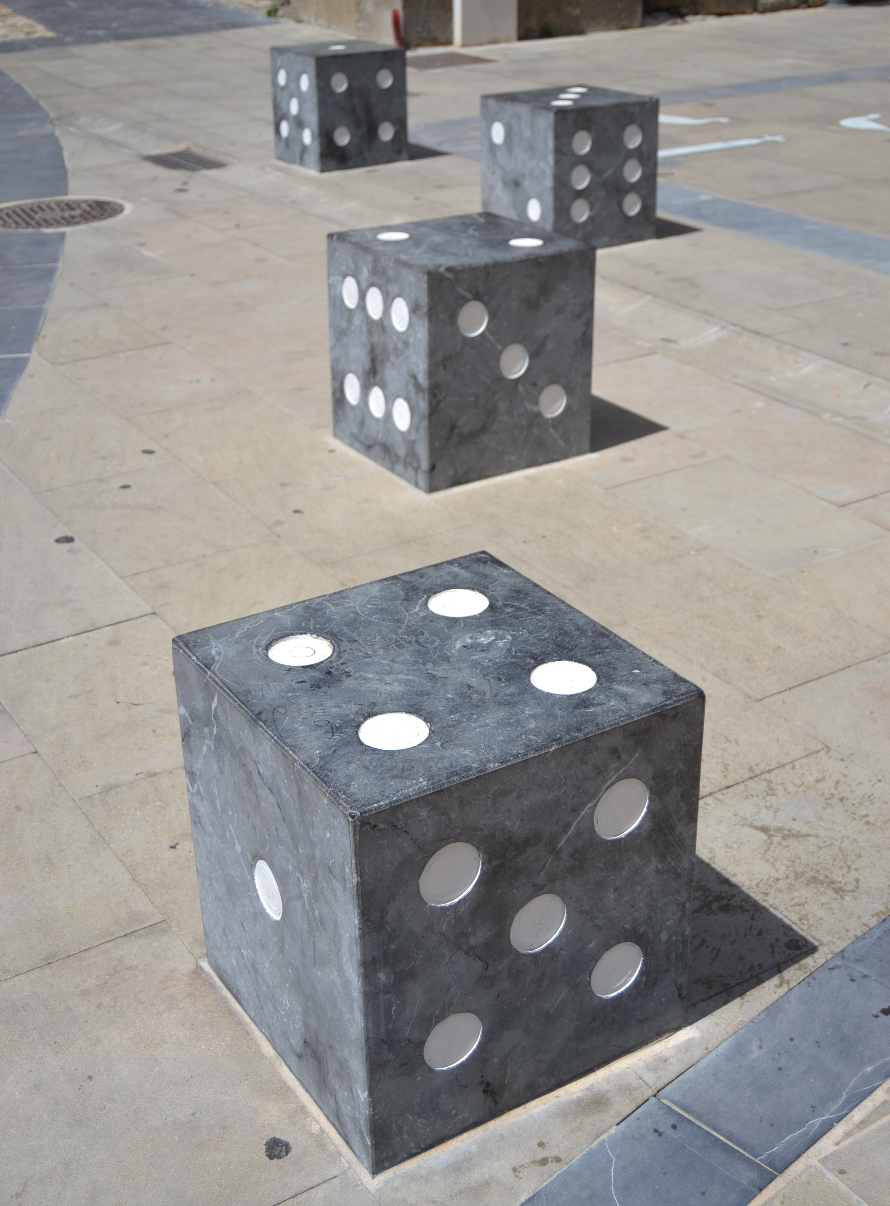 Dice from Game of the Goose located in Santiago Square, next to the same name church, in Logroño, La Rioja, Spain. Each one is about 30-40 cm wide.